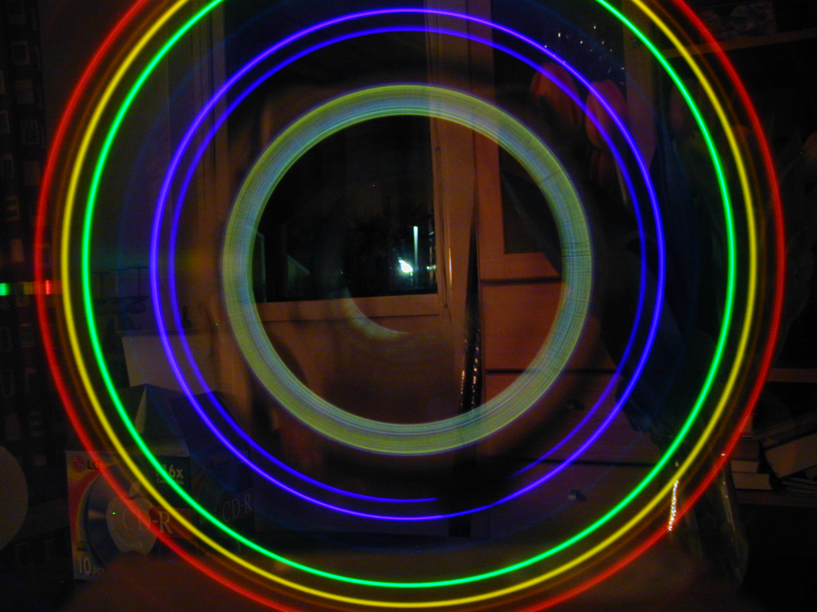 Spectrum of a distant streetlight, photographed through a Compact Disc